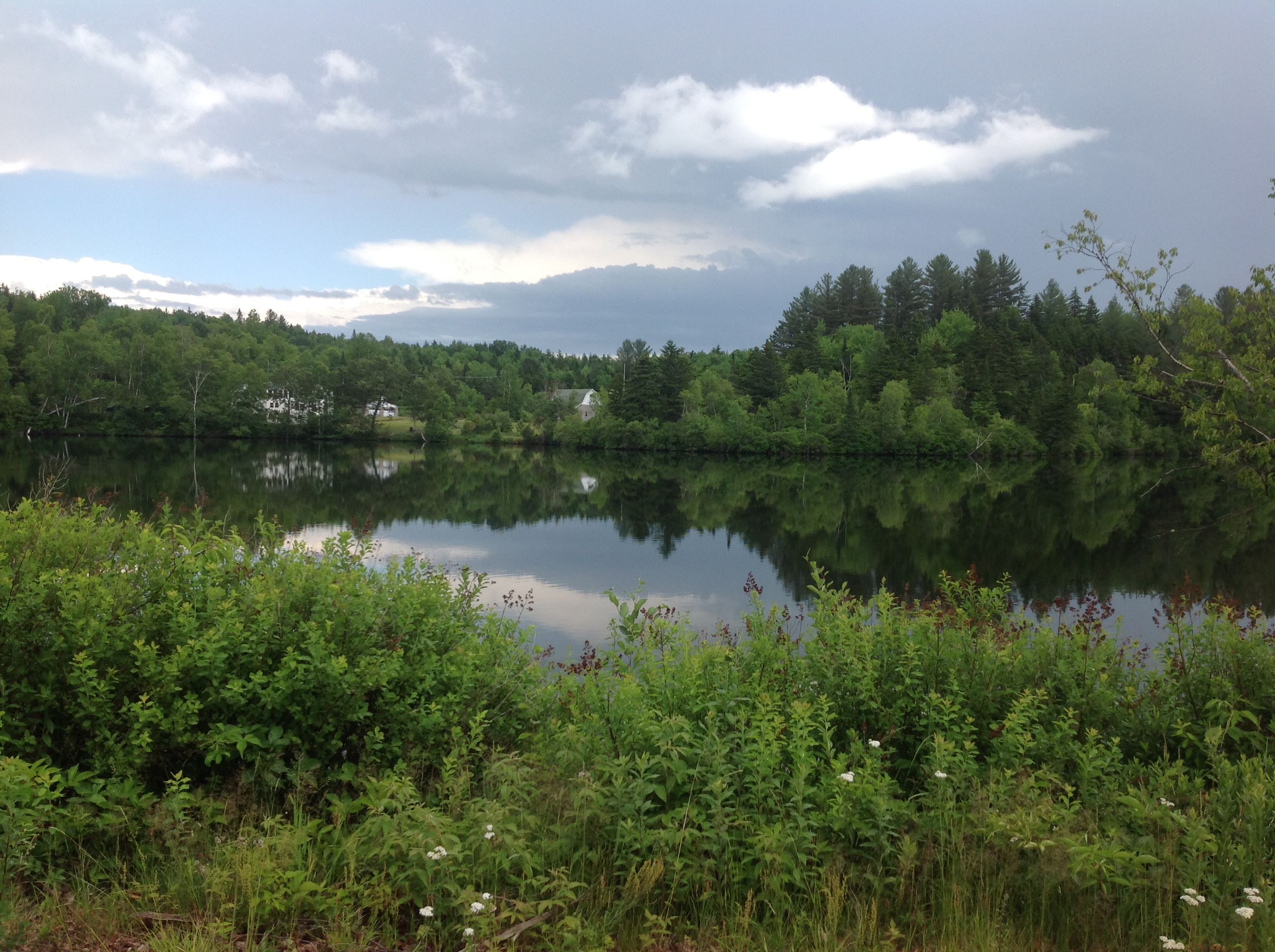 York Pond in Berlin, New Hampshire. Notice the Berlin Fish Hatchery in the background. (My own photo, I release to the public)